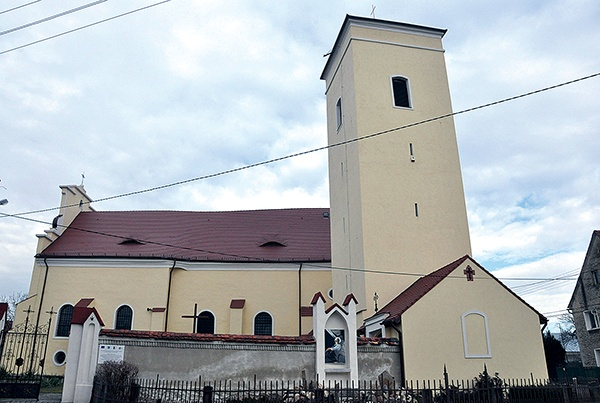 Roman Catholic, Exaltation of the Holy Cross church in Niwnica, Poland